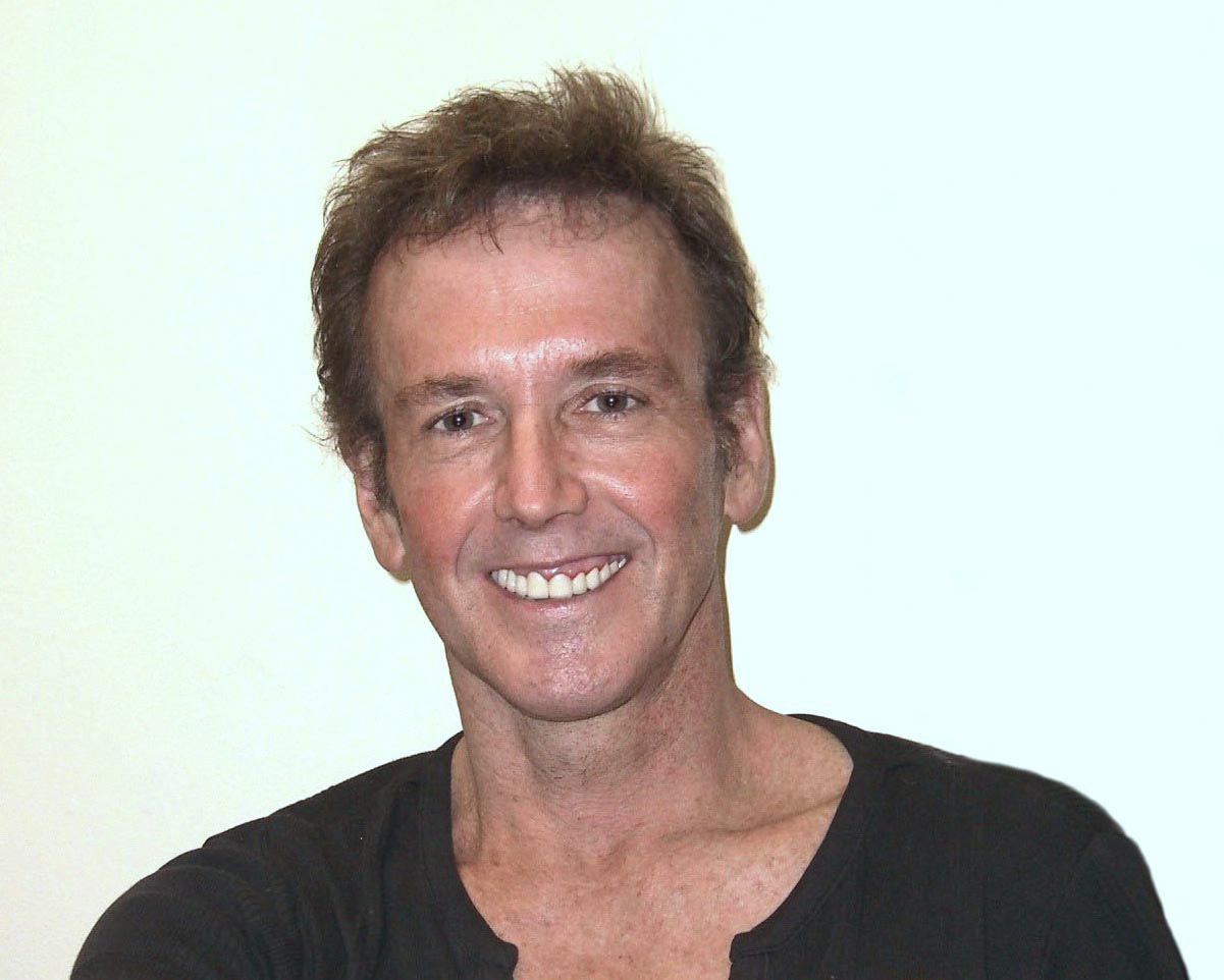 Comics creator Bill Sienkiewicz at the Big Apple Convention in Manhattan, May 21, 2011. This photo was created by Luigi Novi. It is not in the public domain, and use of this file outside of the licensing terms is a copyright violation.